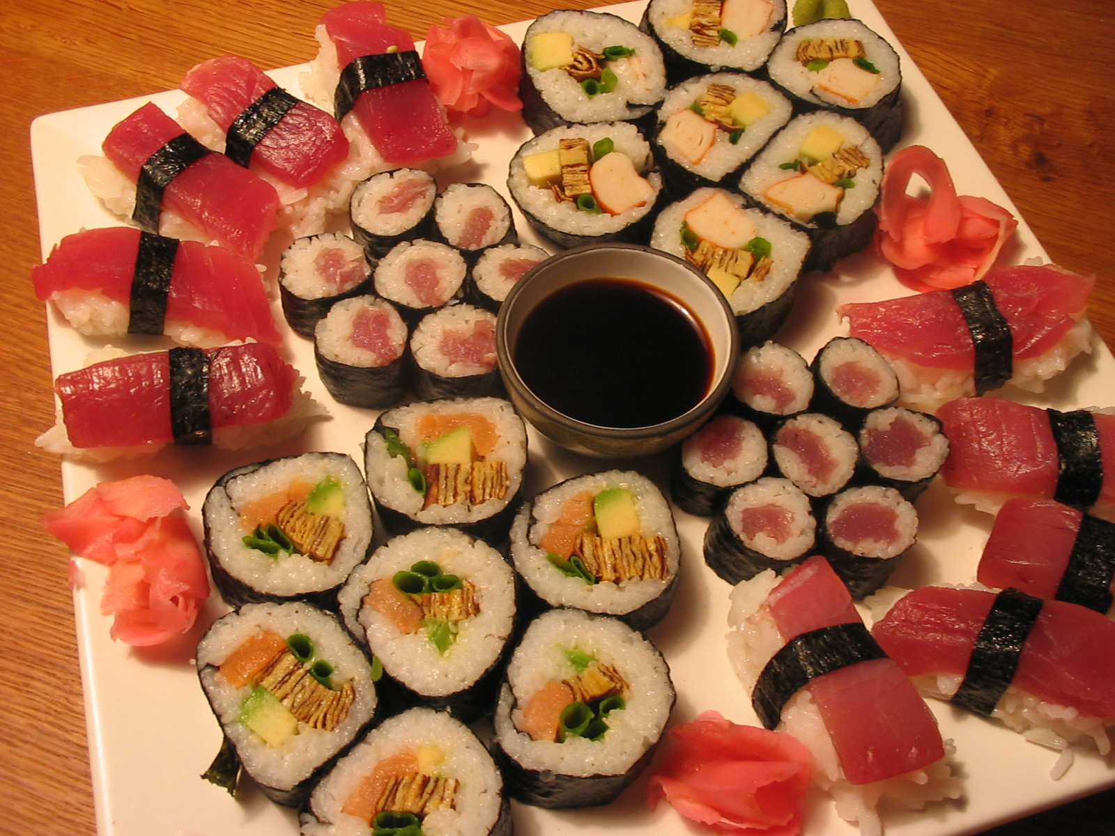 The sushis i made last week-end !